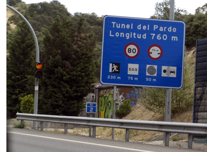 El Pardo tunnel in M-40 motorway in Madrid